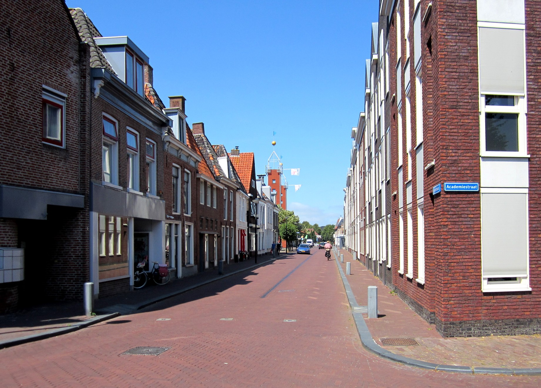 Vijverstraat (Frisian: Fiverstrjitte), a street in Franeker/Frjentsjer, Friesland, the Netherlands.